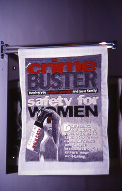 Dakar Biennale 2002. Photo Iolanda Pensa.